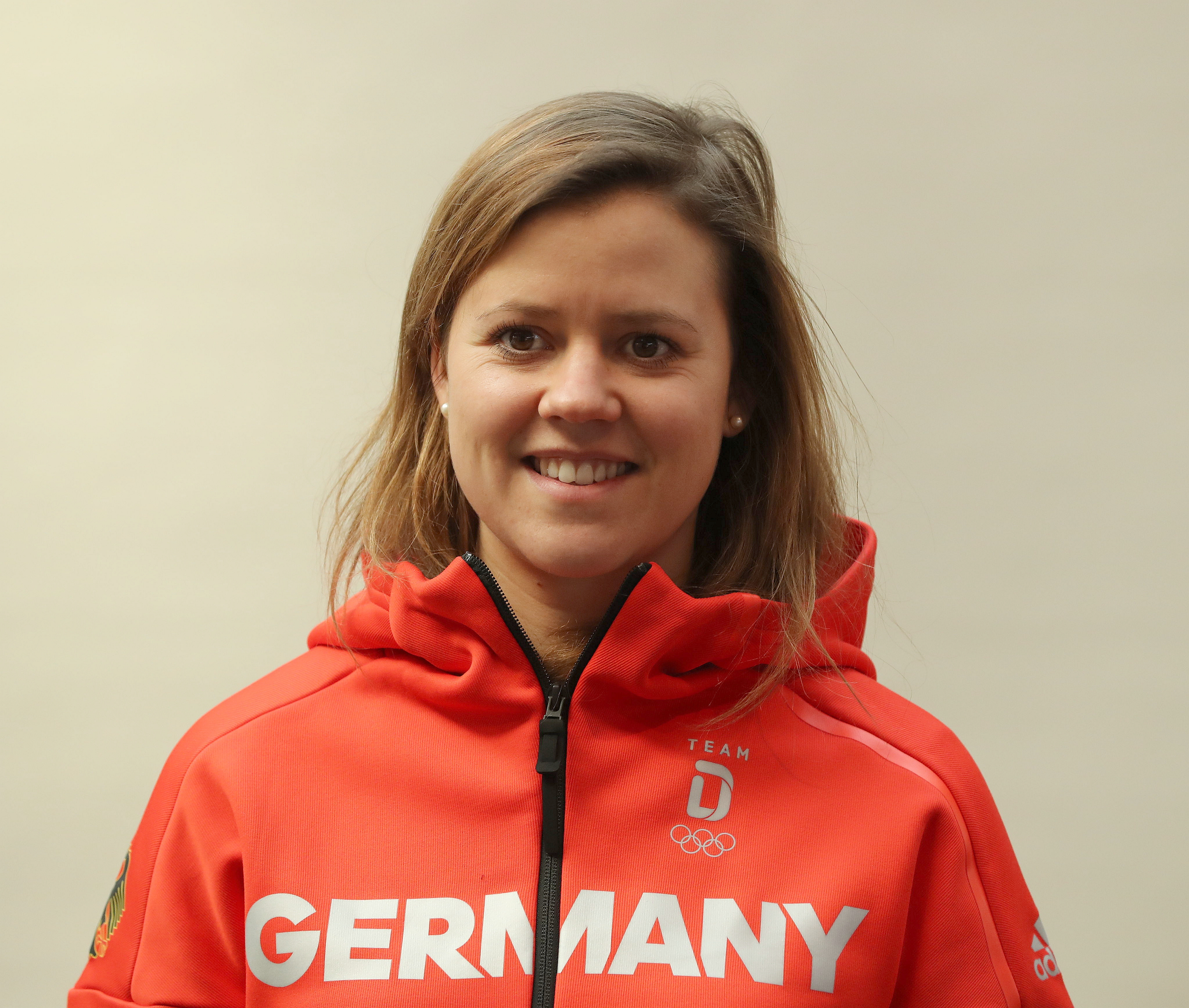 Portraits at the Clothing of the German team for Winter Olympics 2018 in Pyeonchang.